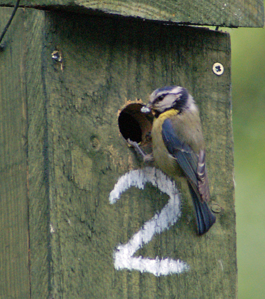 Come in number 2. An adult blue tit (Cyanistes caeruleus) at a wooden nest box in Daventry Country Park, Northamptonshire, England.